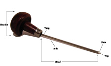 This is a picture of a burin and descriptions of its various parts. It is used with the permission of the creator, contingent upon citation. The creator has authorized use (via email) under the following terms